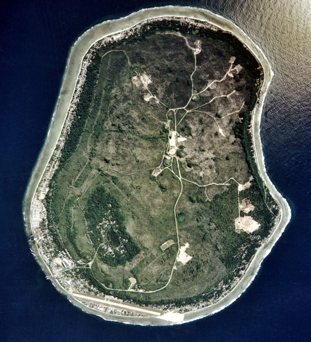 Nauru satellite picture